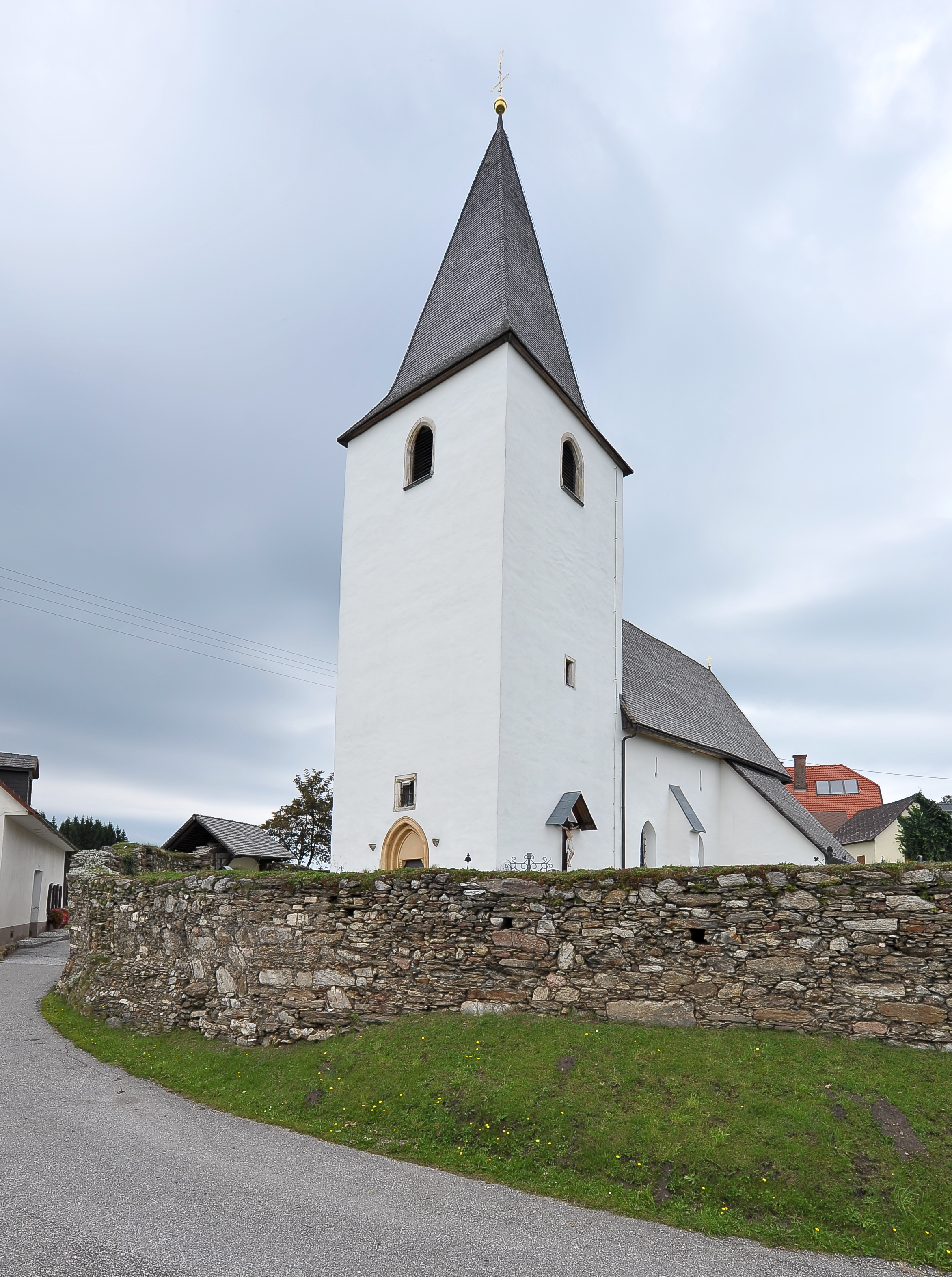 Southwestern view at the parish church Saint Magdalene at Theissenegg, municipality Wolfsberg, district Wolfsberg, Carinthia, Austria, EU